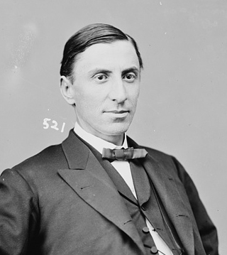 Kentucky Congressman Boyd Winchester